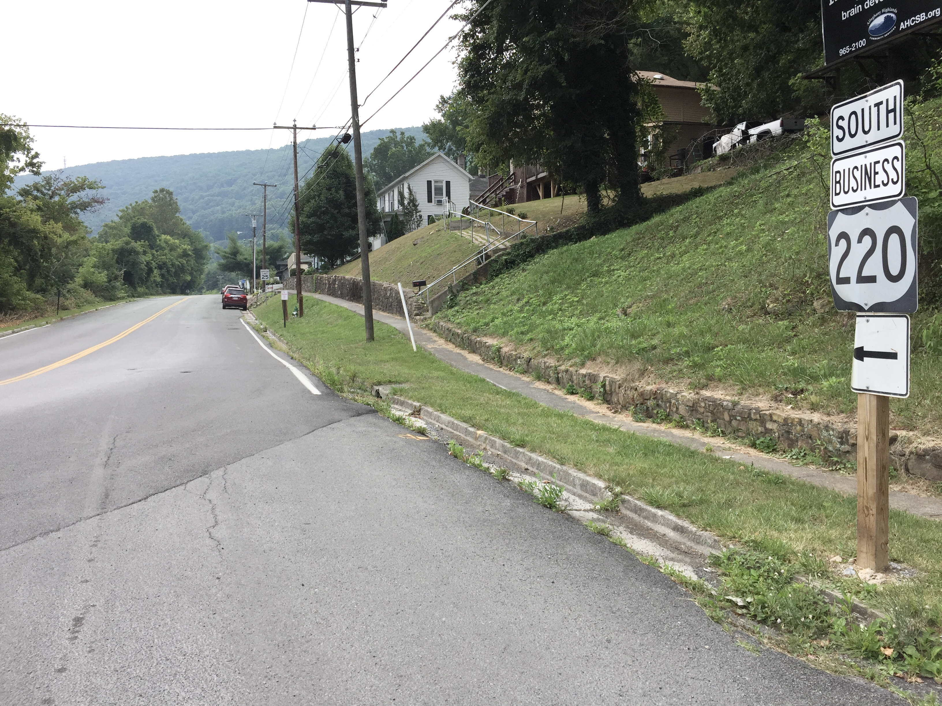 View south along U.S. Route 220 Business (Verge Street) at A Street in Clifton Forge, Alleghany County, Virginia